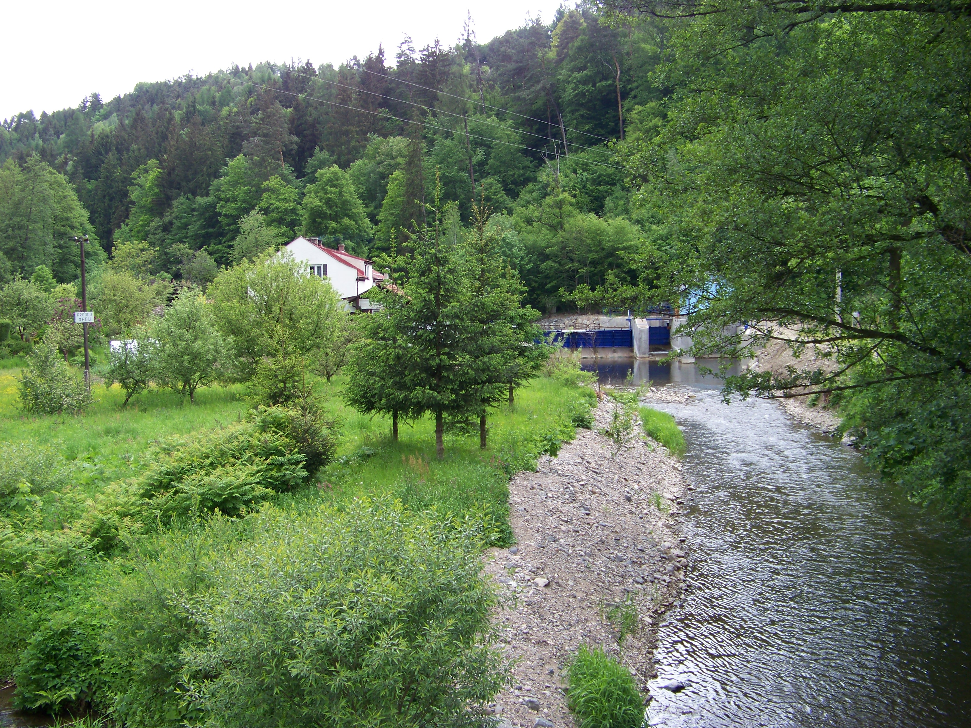 Hoštejn, Šumperk District, Olomouc Region. Březná river.